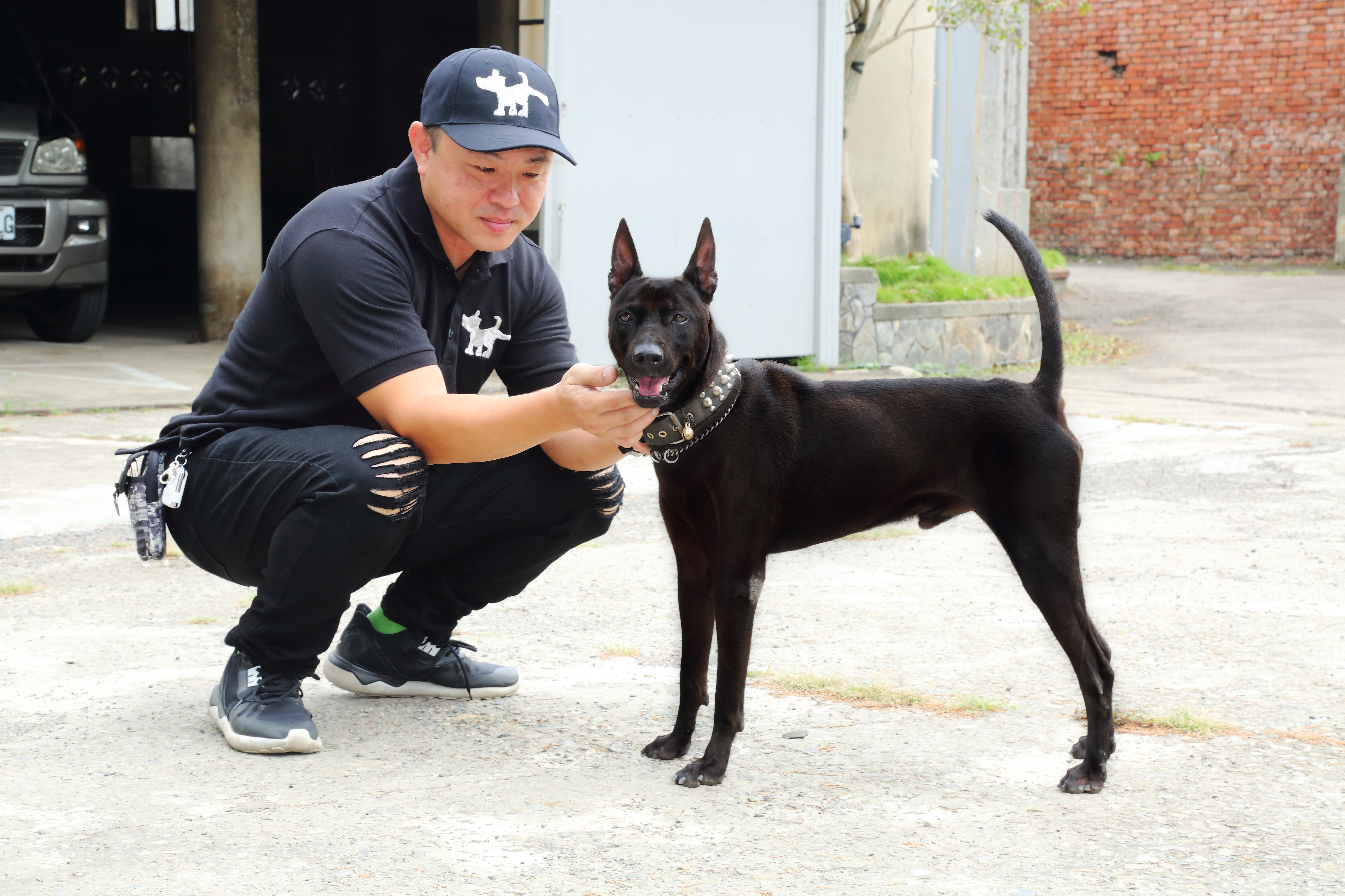 The Taiwan Dog (Formosan Mountain Dog) is my favorite animal, it is originated in Taiwan and my work is inspired by this beautiful dog.